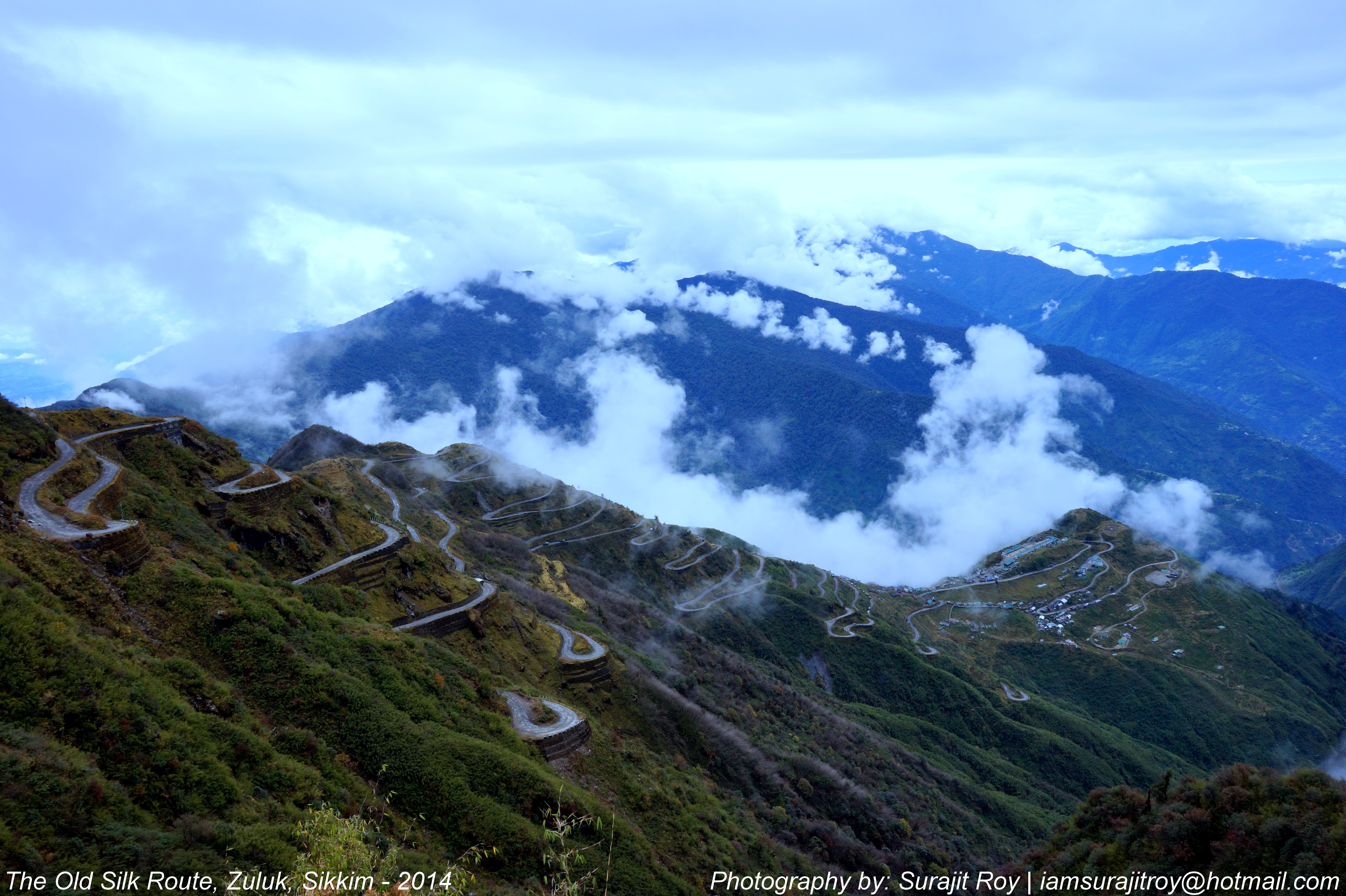 A world famous historical path. It is in Zuluk,Sikkim.